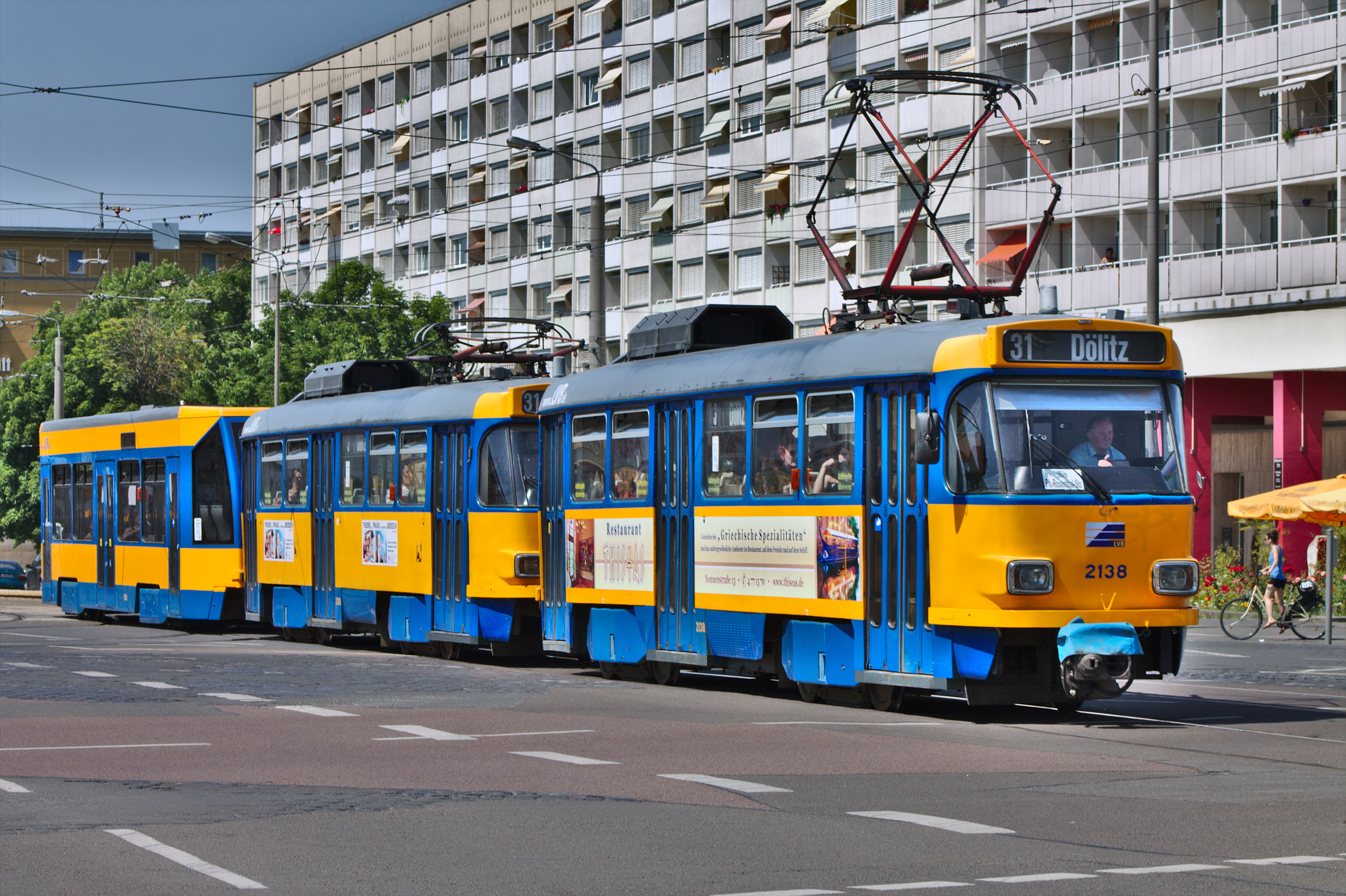 A full-size train comprised of T4D-M #2138 + T4D-M #2136 + NB4 on a Leipzig tram special service during the festival "Wave-Gotik-Treffen" (route 31 from Hauptbahnhof [Grand Central Station] to Dölitz) on the street crossing Windmühlenstraße × Nürnberger Straße, just before Bayerischer Bahnhof [Bavarian Station].